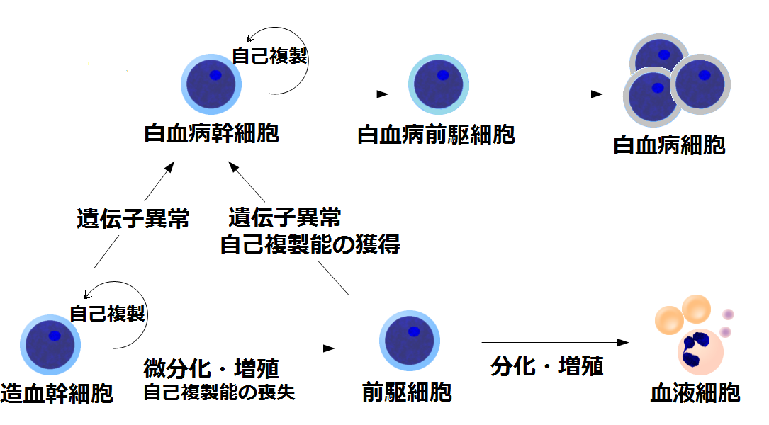 Development of leukemia stem cells